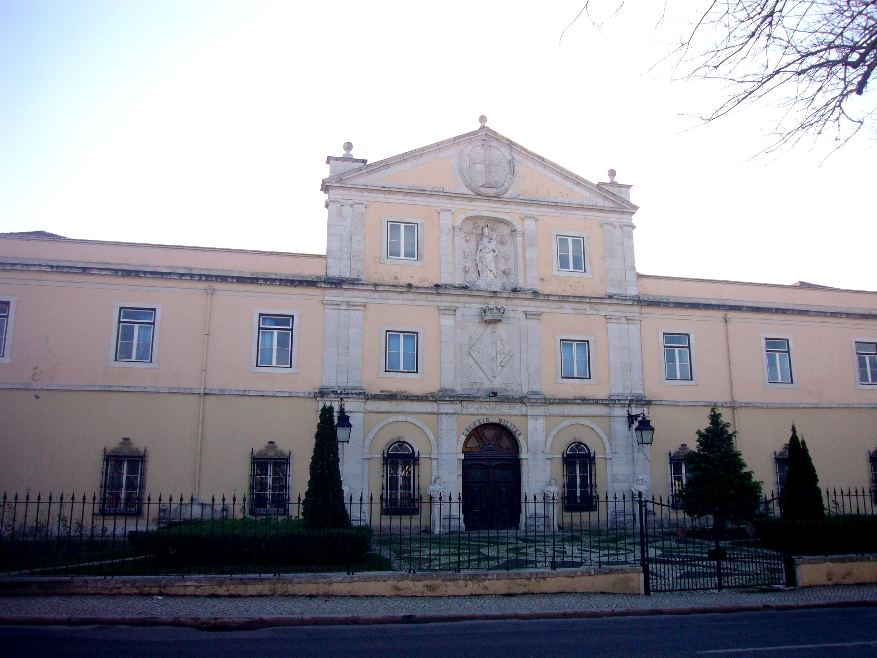 Colégio Militar is a military school in Lisbon,. It was founded by General António Teixeira Rebello during the Invasion of Portugal by Napoleon's Army